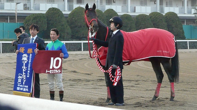 Tosen-Bright20091224